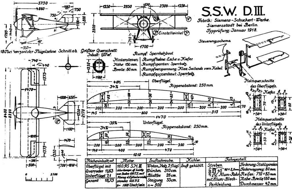 Siemens-Schukert D.III German World War 1 single seat fighter